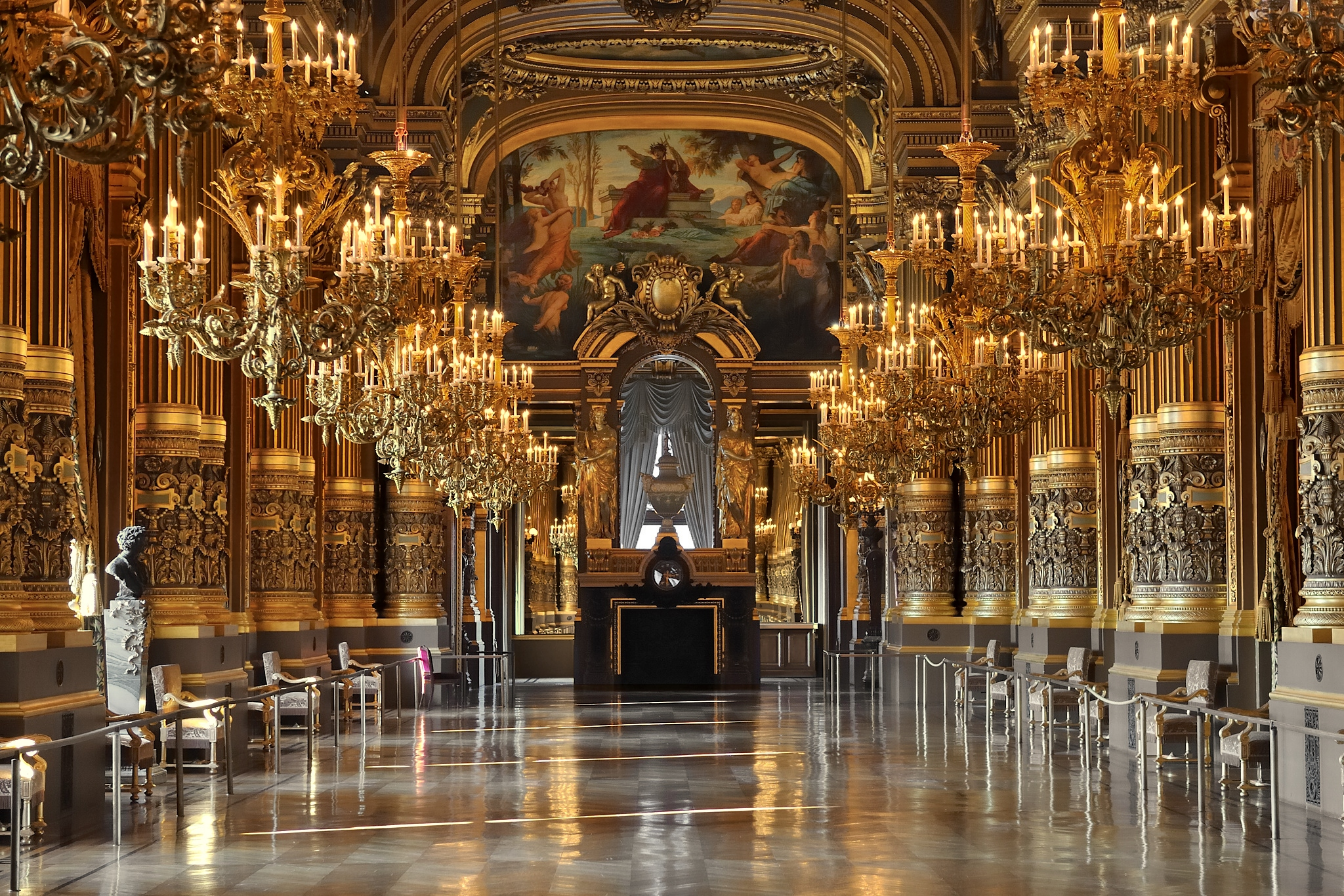 Opera House of Paris, the Palais Garnier's grand salon.